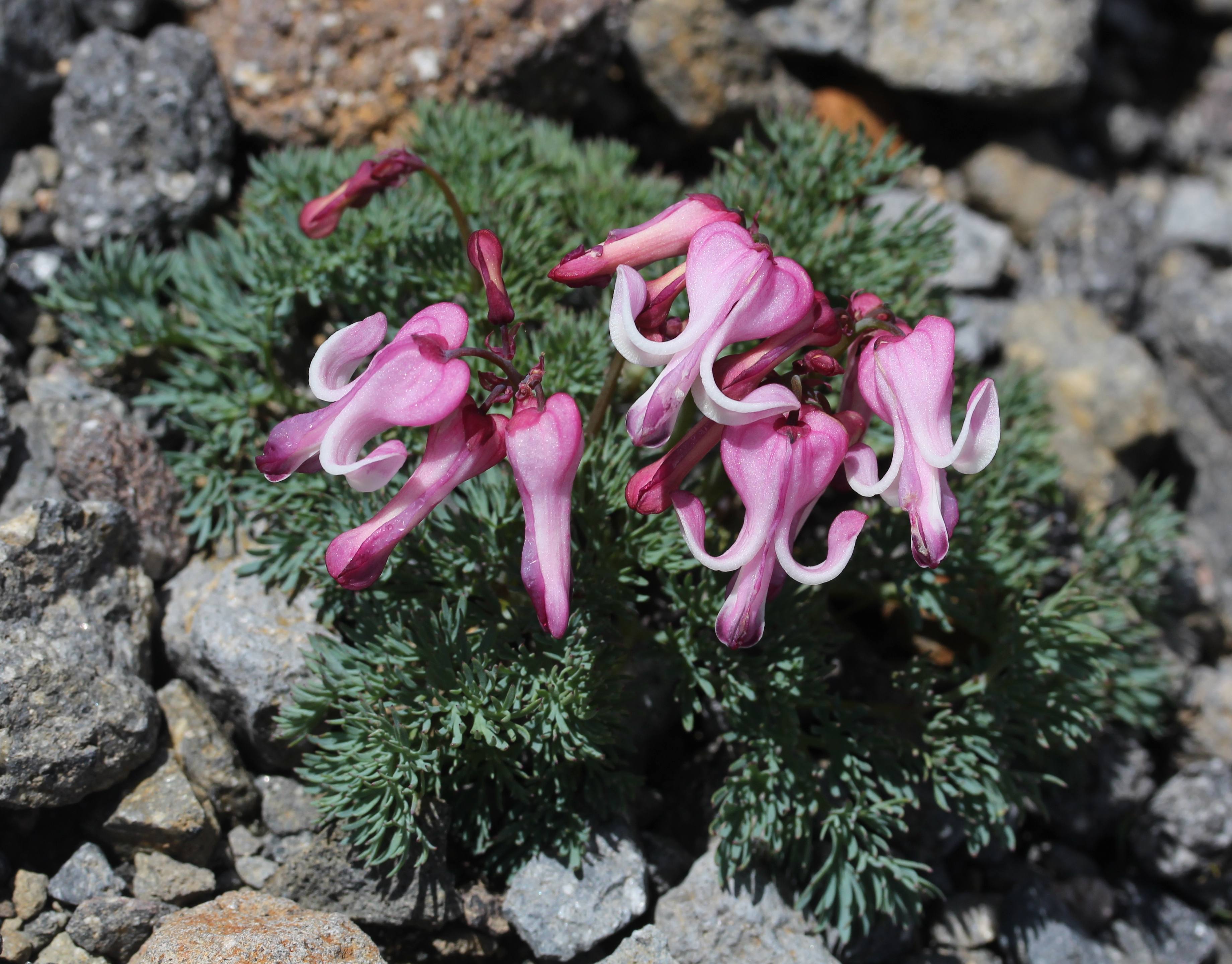 Dicentra peregrina in Mount Norikura, Takayama, Gifu prefecture, Japan.